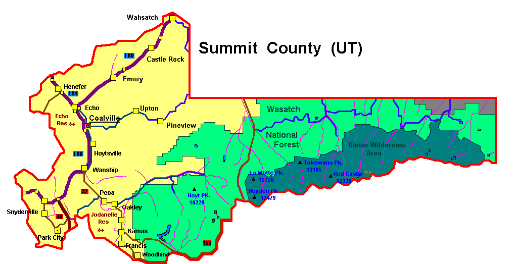 Summit County /UT) Details, selfmade graphic by R. Blauert Dk4hb